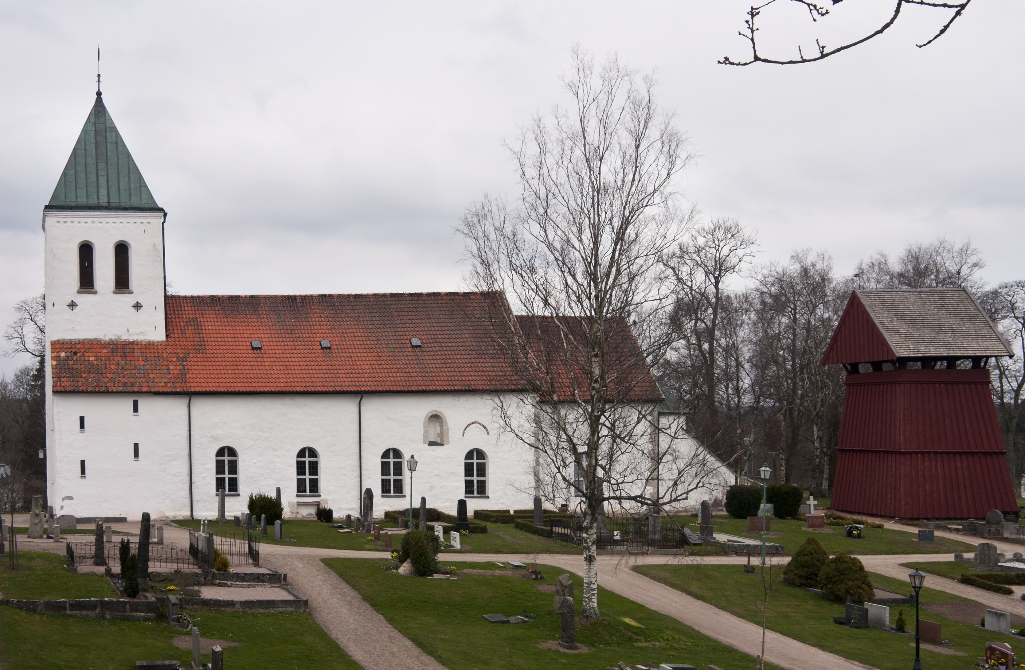 Norra Mellby church, Sösdala Parish, Diocese of Lund, Church of Sweden.